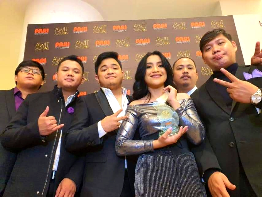 This band photo on awit awards